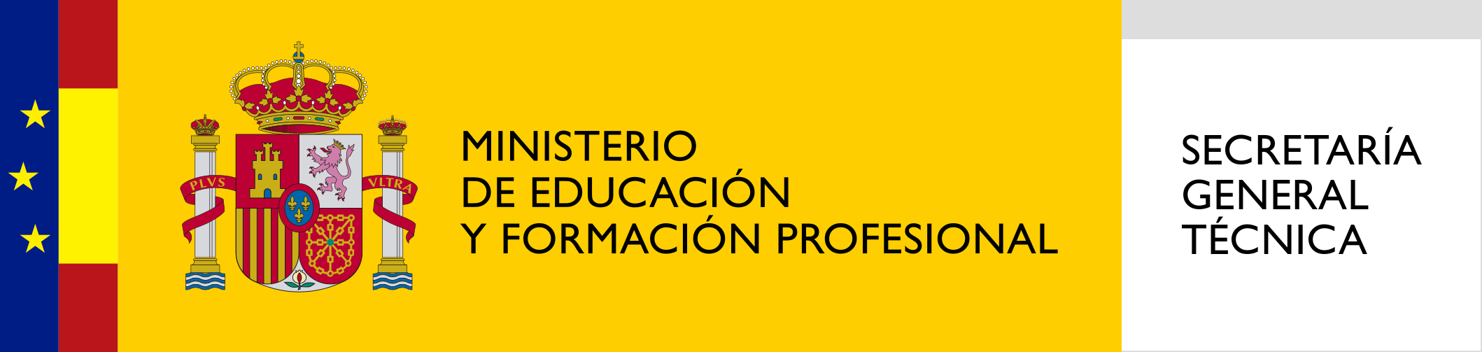 Logo of the Technical General Secretariat of the Ministry of Education and Vocational Training.